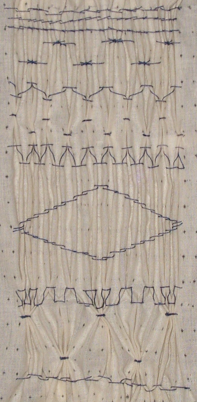 Smocking sampler, without letter coding. Original design.